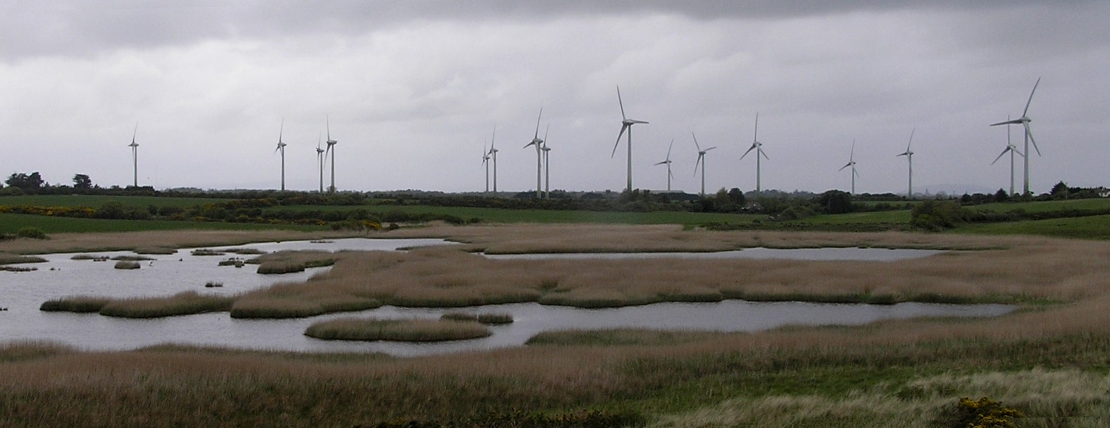 Looking Northwestward out over the salt marsh at the back of Morriscastle caravan park in Kilmuckridge, Co Wexford at the 42 MW 21 turbine wind farm at Ballywater close to Cahore Point and lying between the villages of Ballygarret to the North and Kilmuckridge to the South. Taken on afternoon of Sunday 6th May 2007.